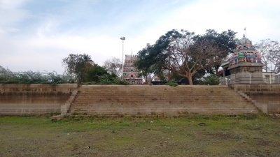 Tiruvirkkudi veeratanesvarar temple திருவிற்குடி வீரட்டானேஸ்வரர் கோயில்